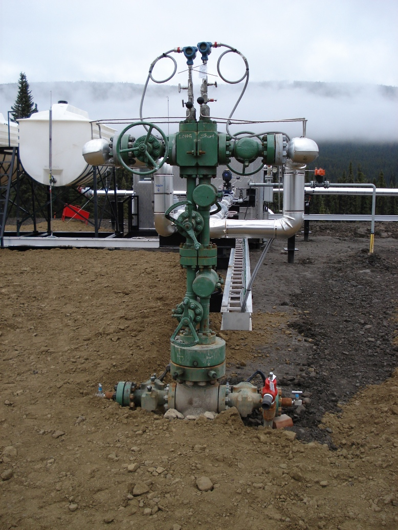 Wellhead in Northeastern BC, Canada The wellhead is a dual completion. Two different zones have been completed however production from the zones remain separate from the zones to the wellhead.